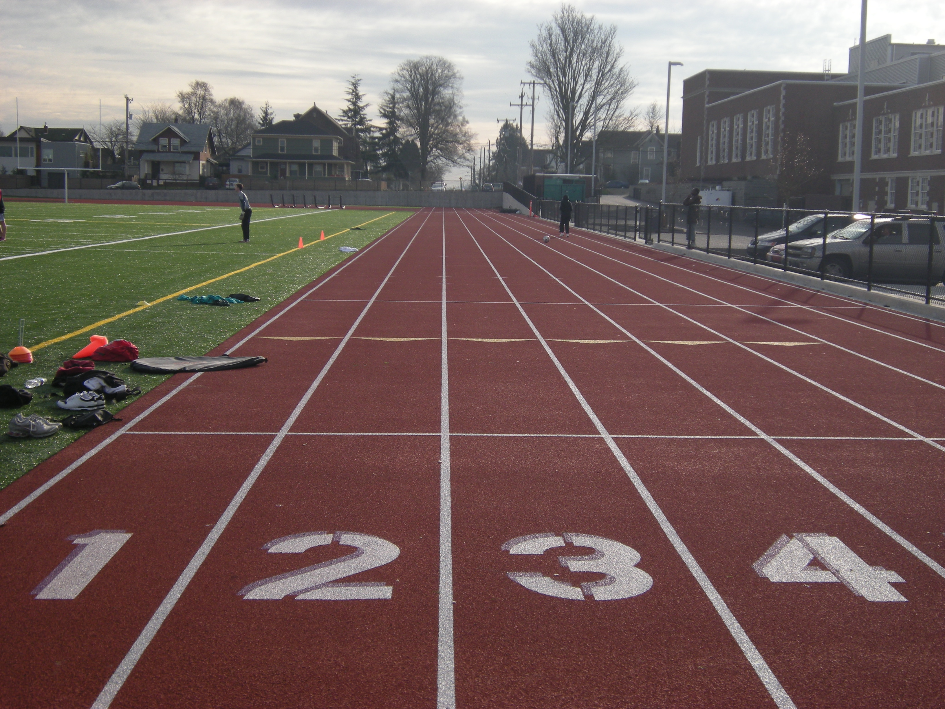 Running track, Garfield High School, Seattle, Washington.